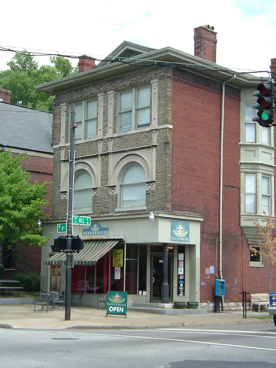 Old Louisville Coffee House. Taken by uploader, all rights released